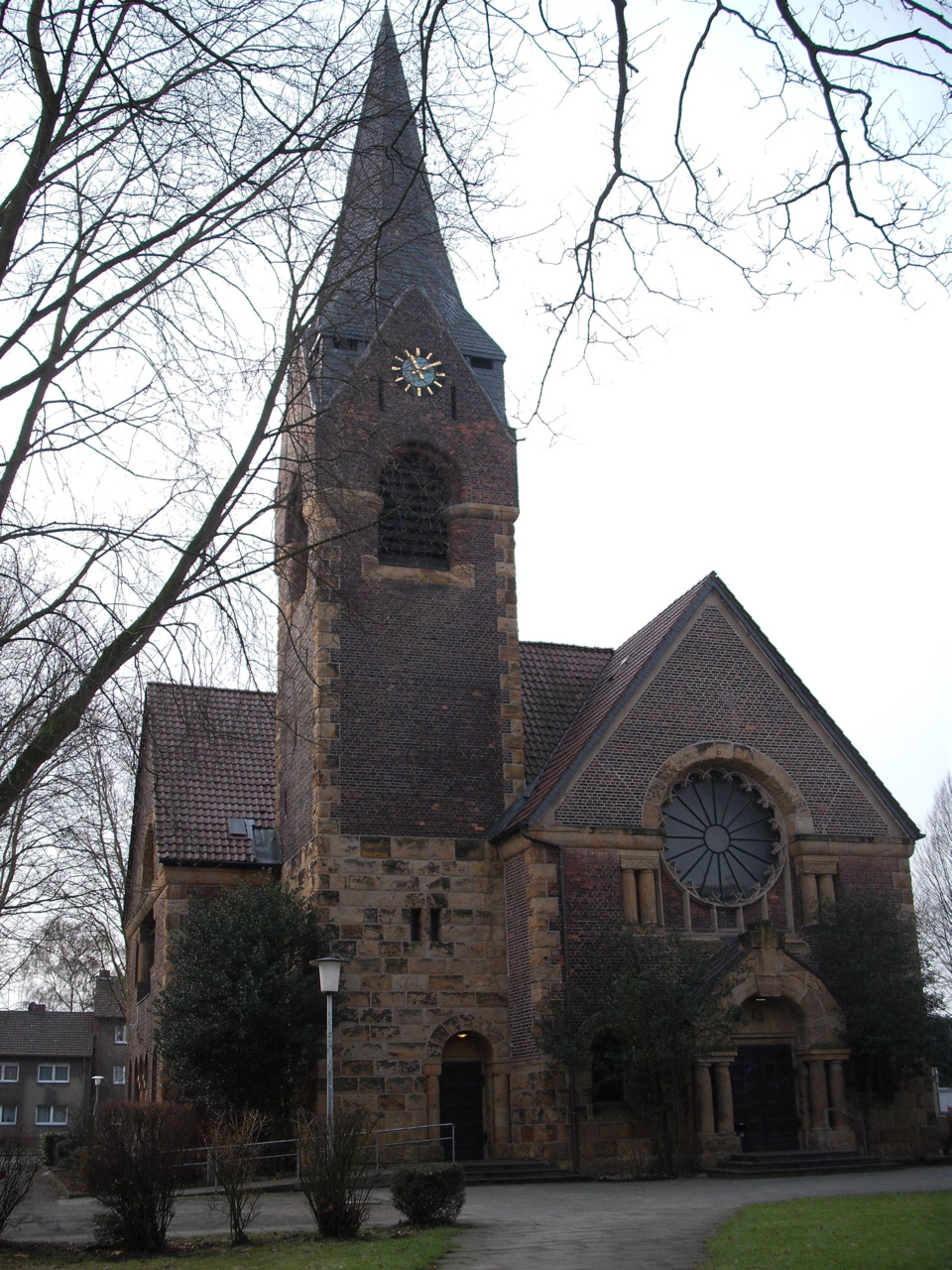 protestant Christus church at Oberhausen-Sterkrade